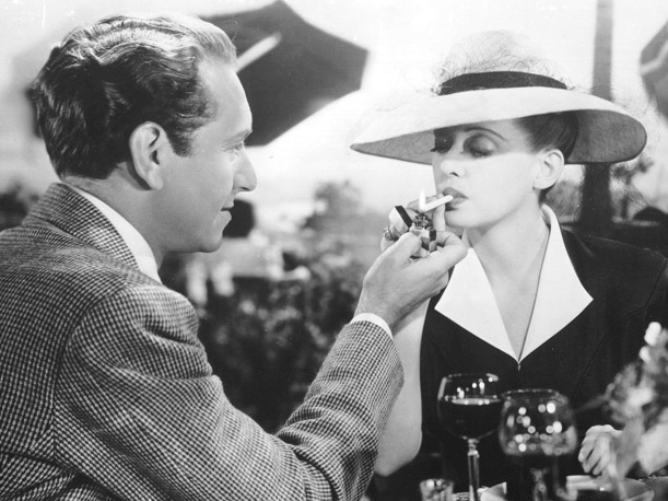 Cropped publicity still of Bette Davis and Paul Henreid in the 1942 film Now Voyager. Such images were taken by a studio photographer, and then disseminated to the media and the public to promote the film (see Film still). This is definitely a publicity still because of the high quality, and a stock code can be seen in the full image.